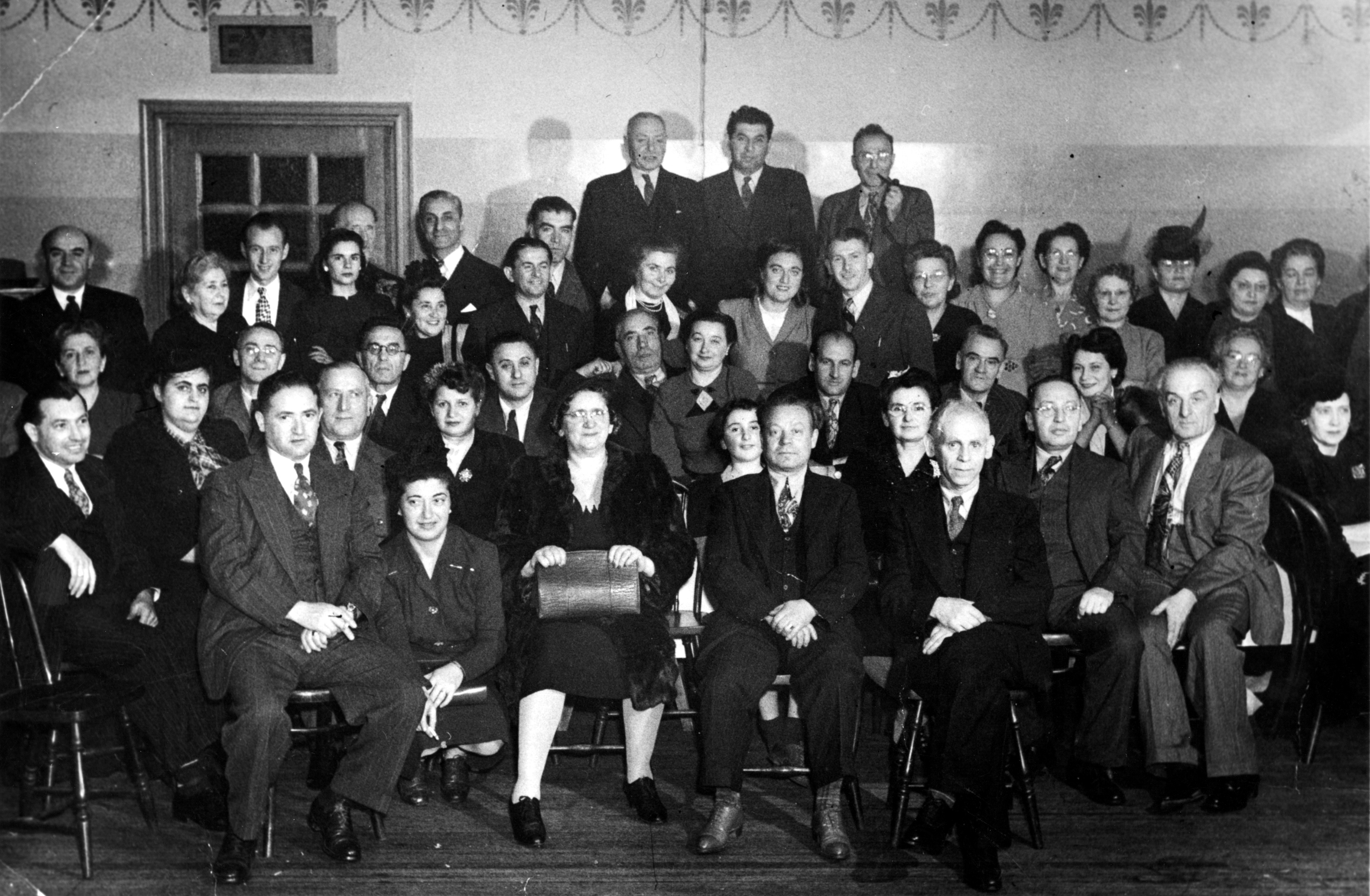 Black and white image of a social gathering at Peretz School